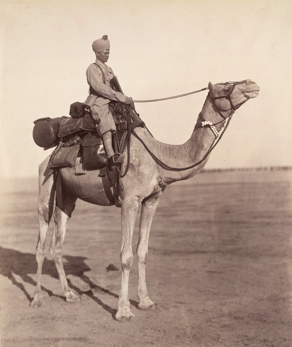 Photograph of a sowar (rider) of the Bikaner Camel Corps on his mount at Bikaner in Rajasthan, taken by an unknown photographer during the Viceroy Lord Elgin's 'Autumn Tour 1896'. This album contains photographs, newspaper cuttings, addresses of welcome, programmes and a map of the tour. The Camel Corps or Ganga Risala, formed by Ganga Singh (1887-1943), fought in China, Somaliland, Egypt and the Middle East as part of the British Army in India. It is now part of the Indian Army's Border Security Force. The regiment are noted for their impressive appearance, particularly their uniforms with colourful turbans. As part of the Border Security Force they maintain long vigils on their camels in the extreme heat of the border country of the Thal desert. The city of Bikaner was founded in 1488 by Bhika, the son of Rao Jodha, the founder of Jodhpur, and is the fourth largest city in Rajasthan.